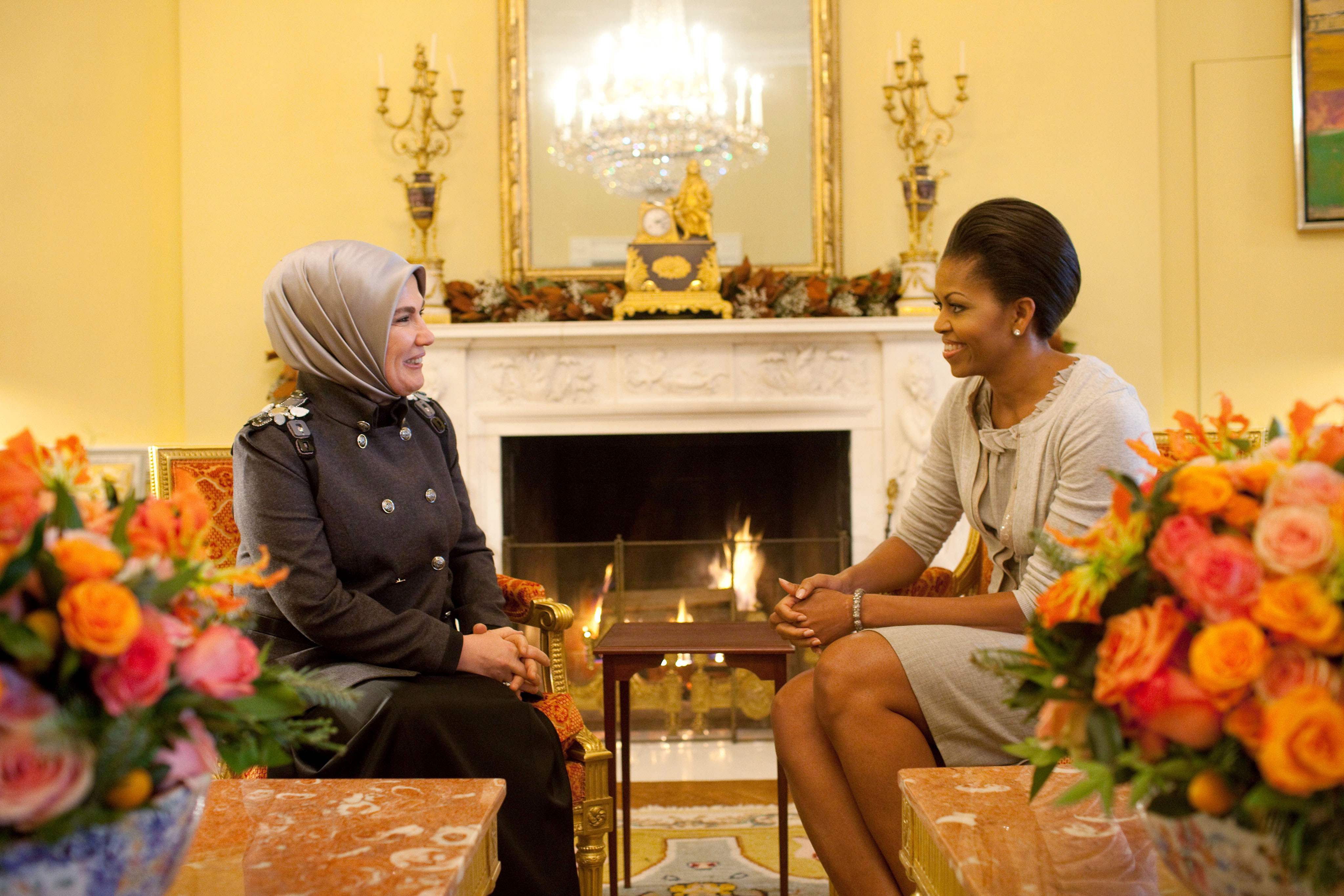 First Lady Michelle Obama meets with Emine Erdoğan, wife of the Prime Minister of Turkey, in the Yellow Oval Room of the White House, Dec. 8, 2009. (Official White House Photo by Samantha Appleton)